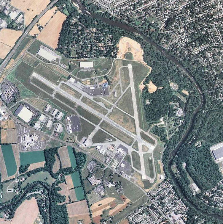 USGS digital orthophoto of Reading Regional Airport in Pennsylvania